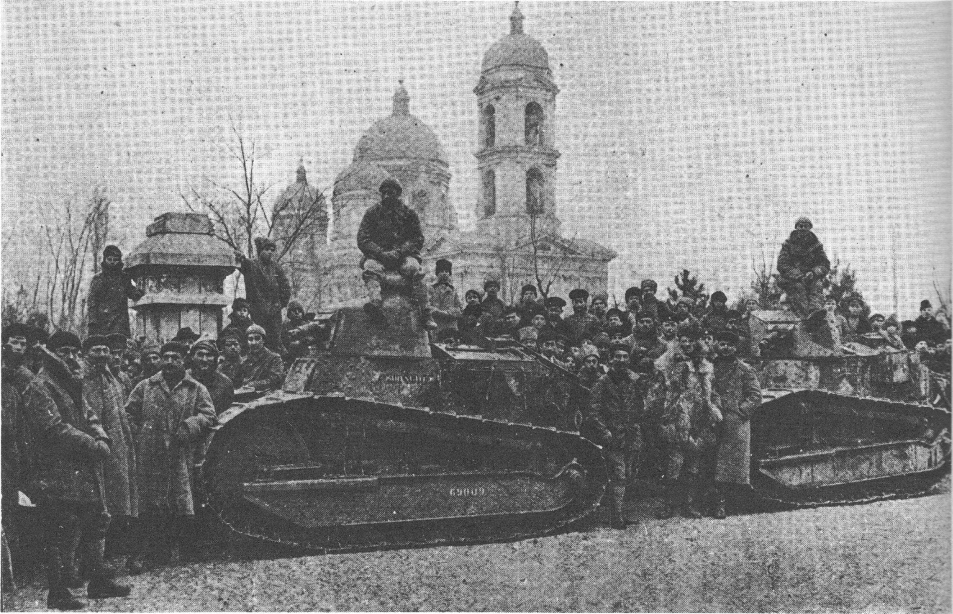 Renault tanks with French soldiers mixed with civilians and White Army soldiers during the military intervention in the Black Sea in 1919